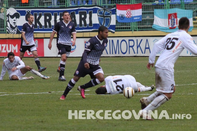 NK Dinamo Zagreb